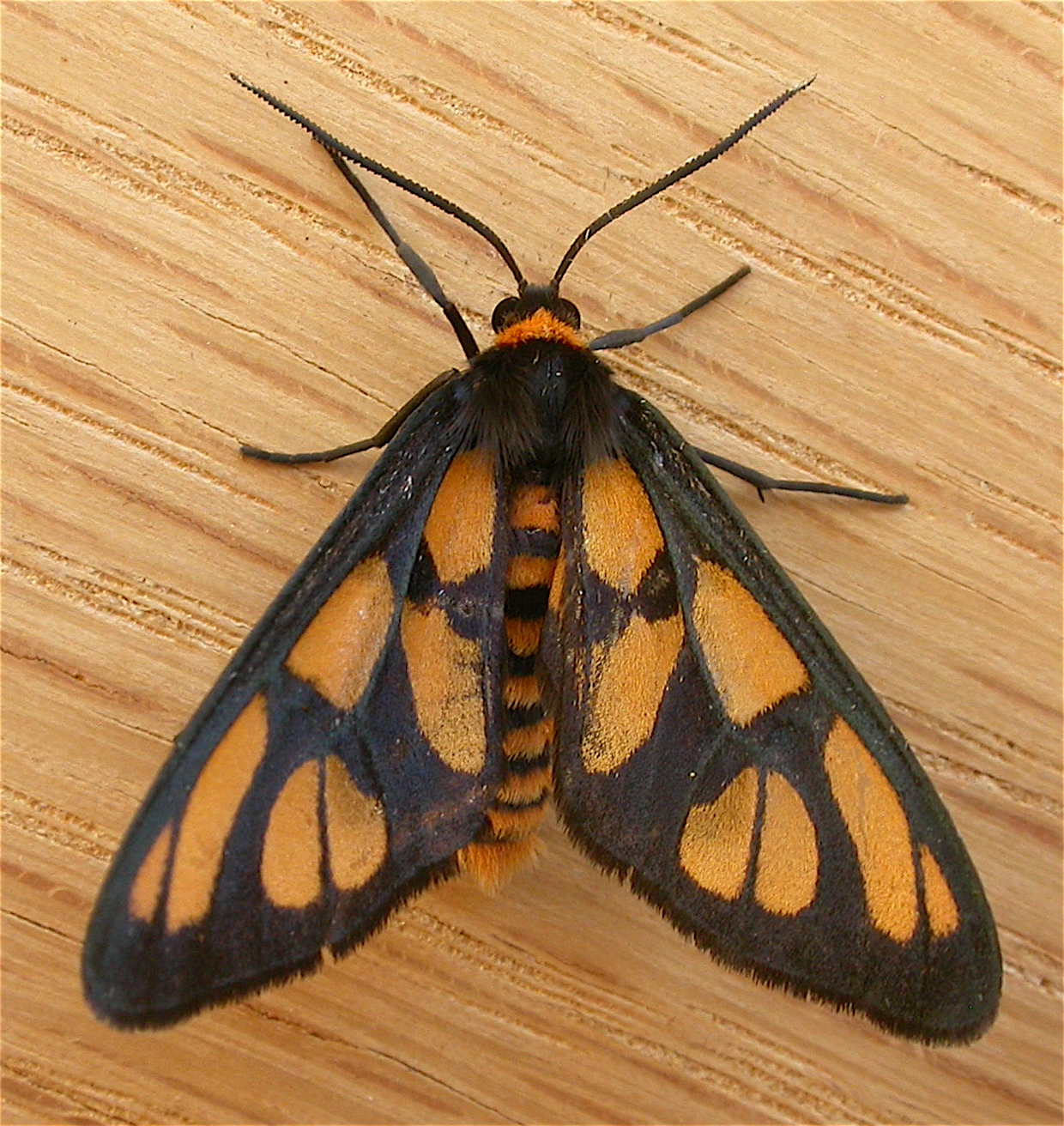 Amata trigonophora (Turner, 1898). Image taken at Aranda, Canberra (Australia).